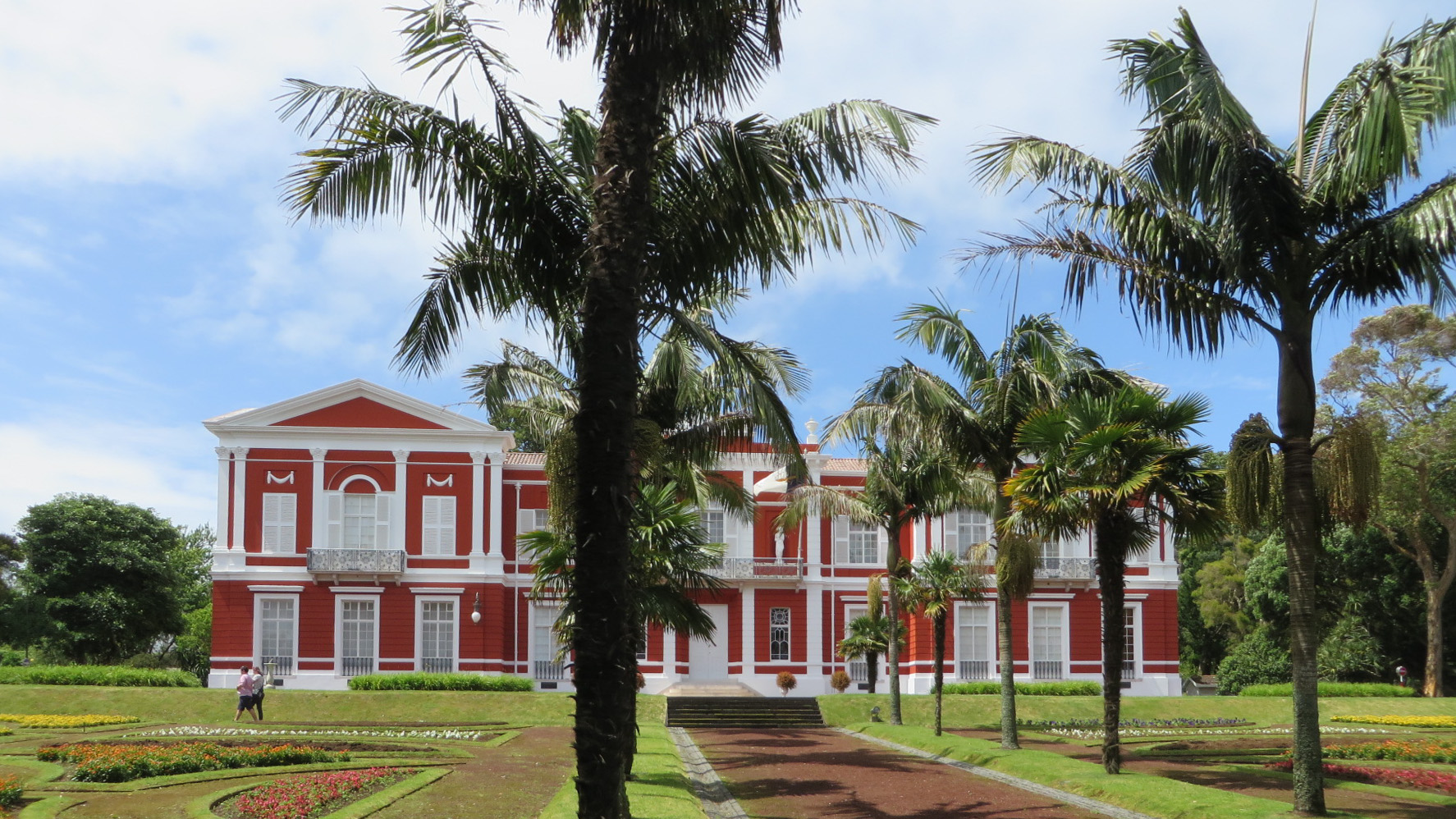 Palace of Sant'Ana, Residence of the President of the Azores Islands in Porta Delgada